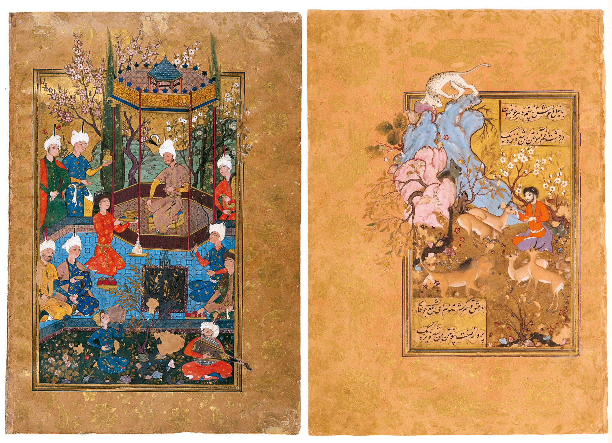 Finispiece From The Diwan Of Sultan Ibrahim Mirza, Page 23.8 x 16.6 cm, 1582, Aga Khan Museum, Geneva